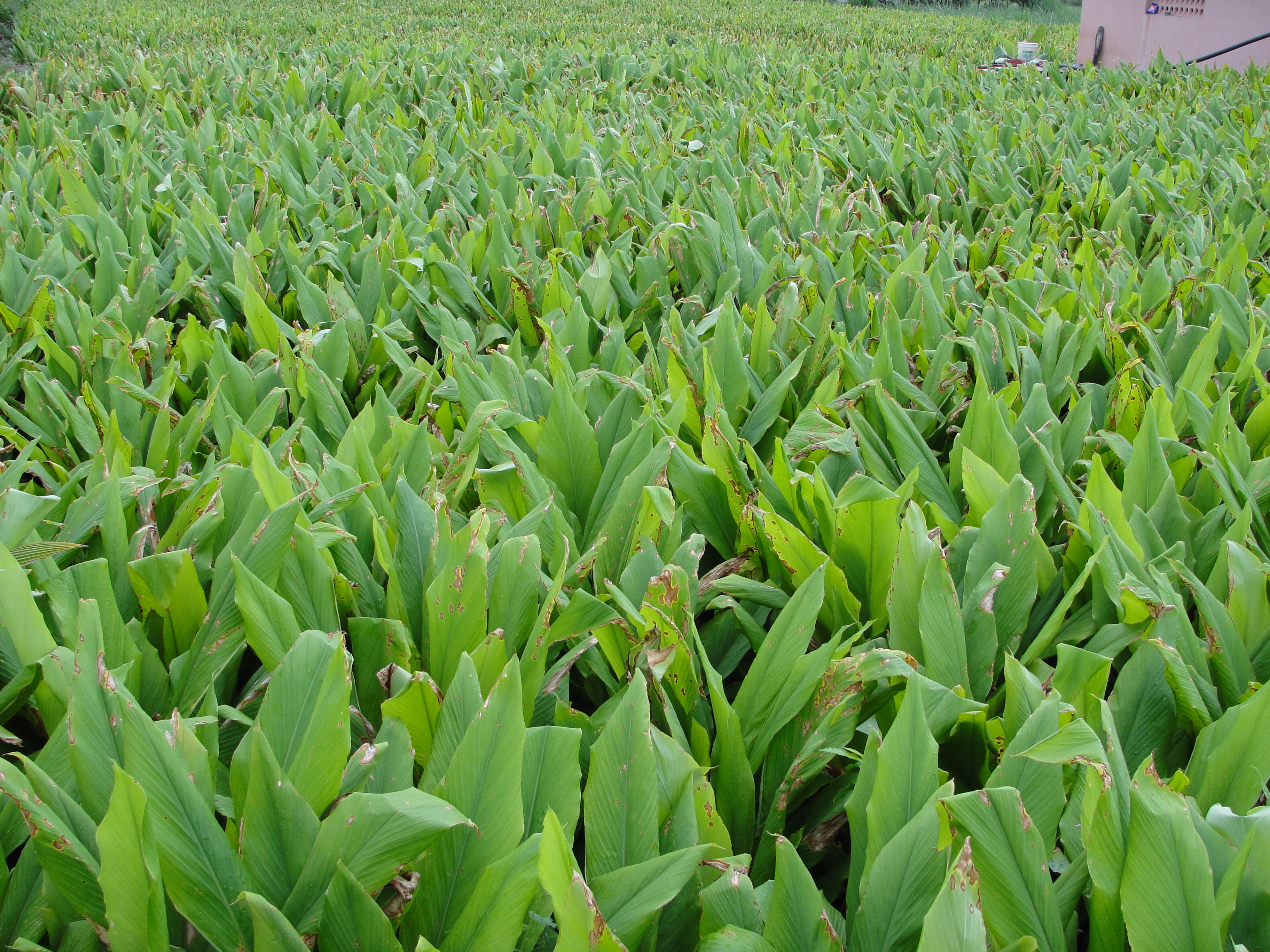 Turmeric (Curcuma longa) is one of the Tamil cultural symbol. This photo is illustrating the turmeric cultivation field and group of young plants.